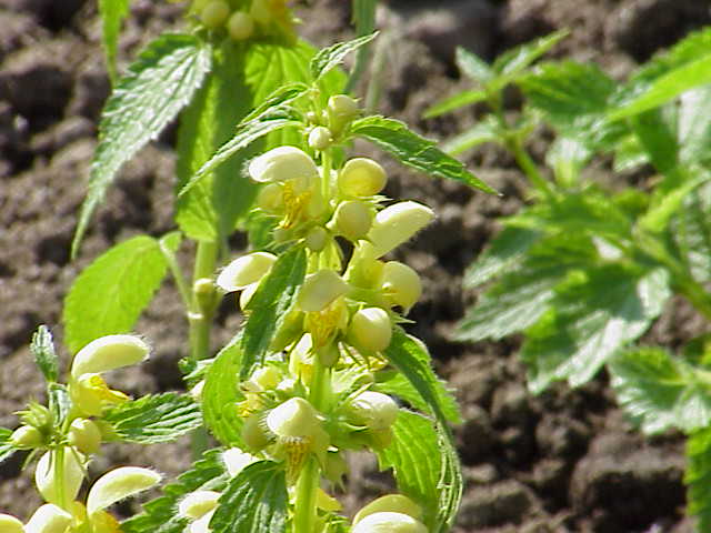 Species: Galeobdolon luteum Family: Lamiaceae Image No. 3